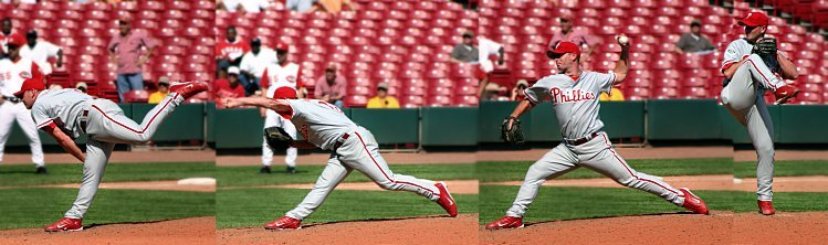 Billy Wagner pitching for the Philadelphia Phillies in 2004, by Rick Dikeman 19:40, 10 October 2005 . . Rdikeman . . 749×222 (55 KB)